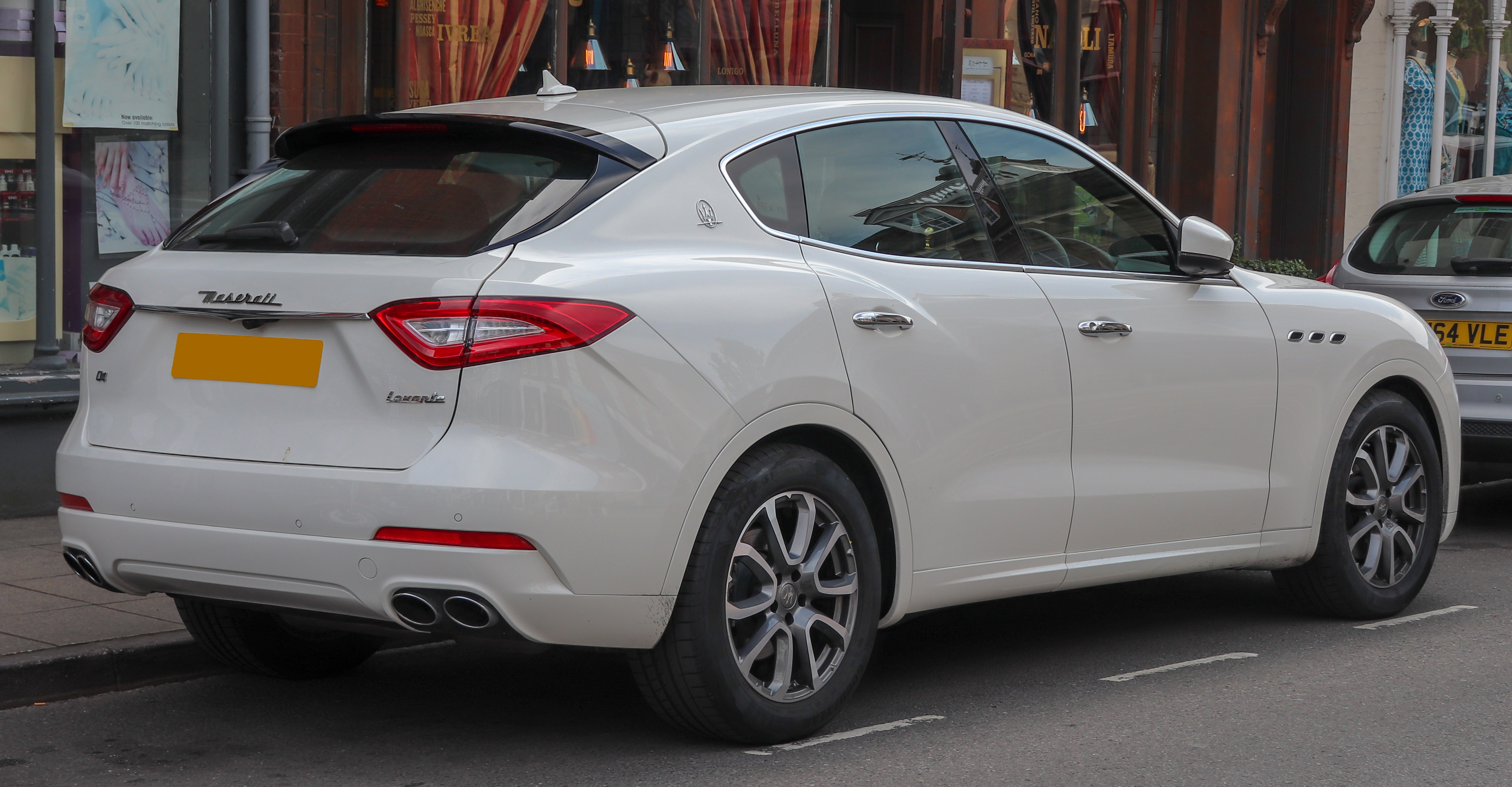 2018 Maserati Levante V6 Automatic 3.0 Rear Taken in Warwick